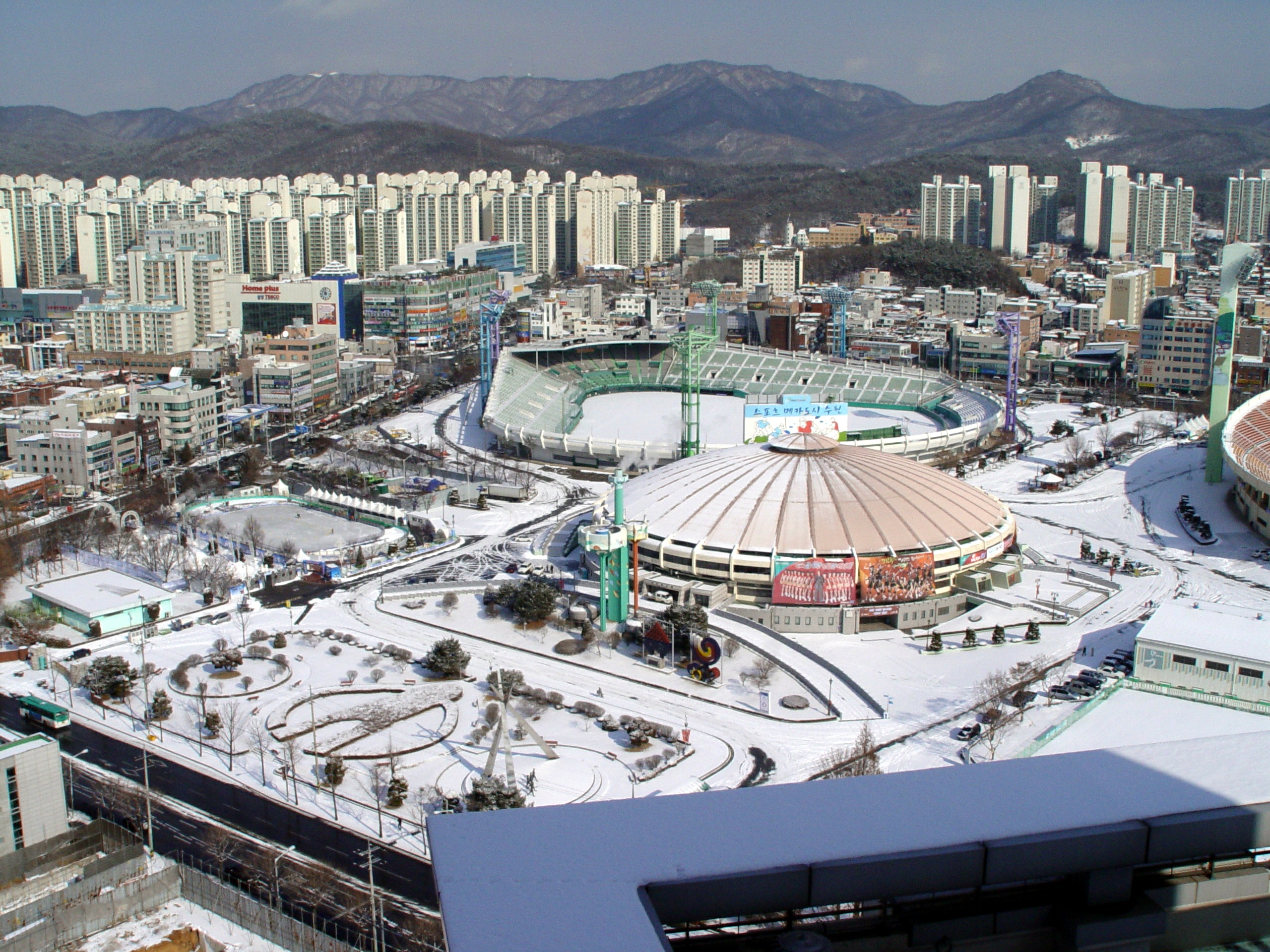 Suwon Civil Baseball Stadium and temporary ice rink viewed from Royal Palace apartments, Suwon, South Korea